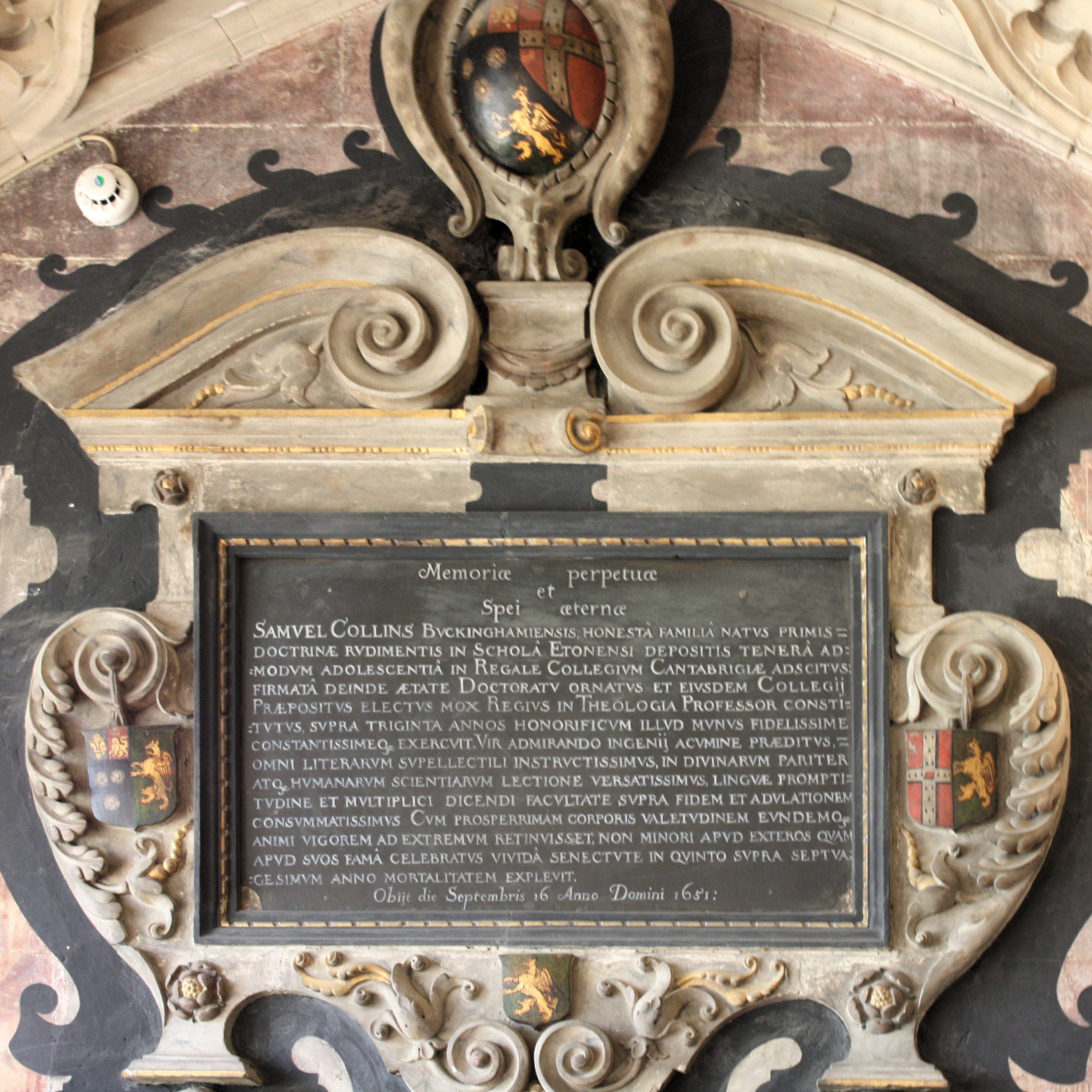 In Memoriam Samuel Collins (1576–1651). King's College chapel, Cambridge.